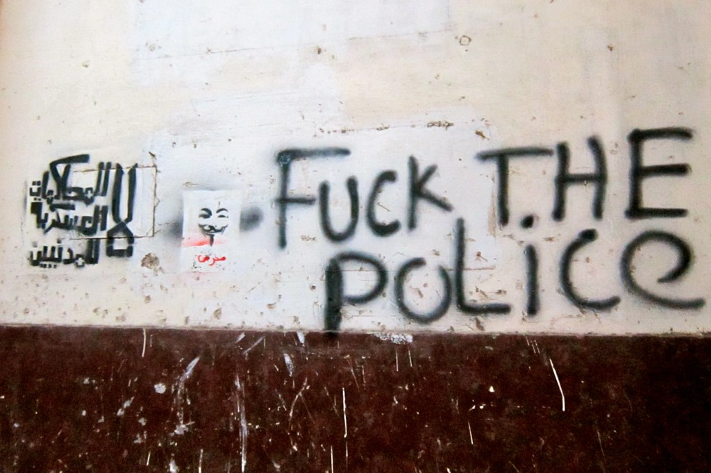 Graffiti in down town, Cairo